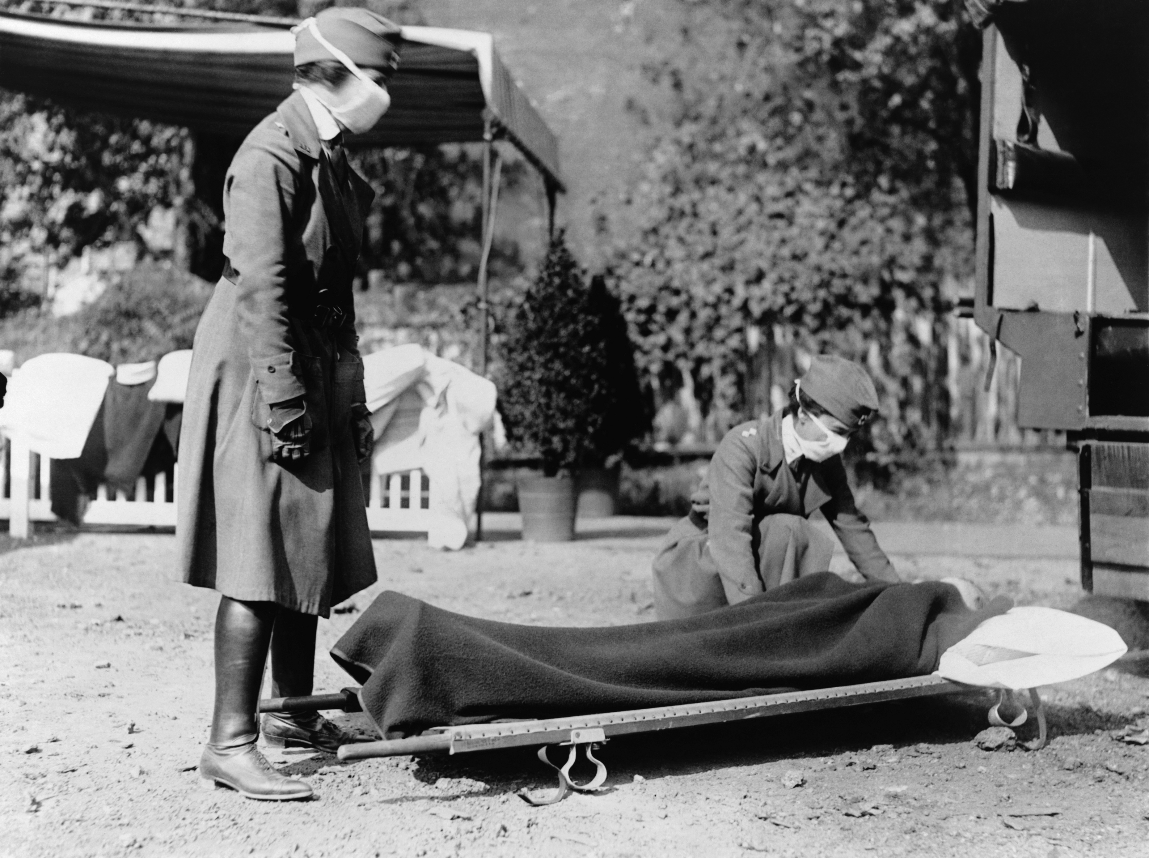 "Demonstration at the Red Cross Emergency Ambulance Station in Washington, D.C., during the influenza pandemic of 1918."